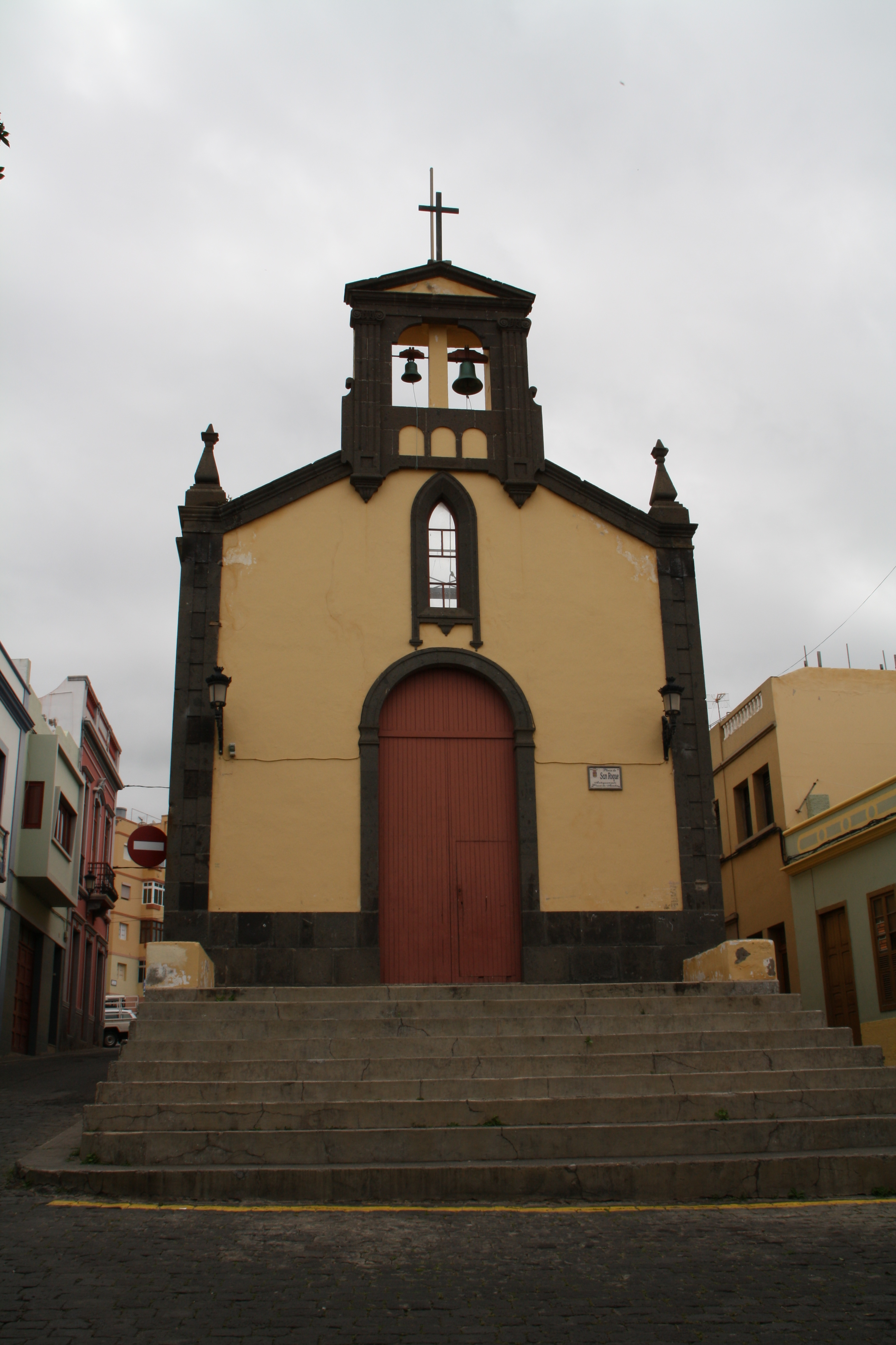 Church San Roque, Santa María de Guía de Gran Canaria